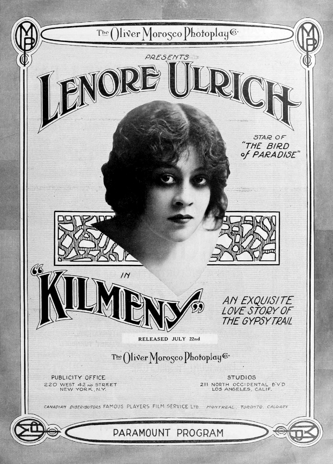 Ad for the 1915 film Kilmeny in Motion Picture World.